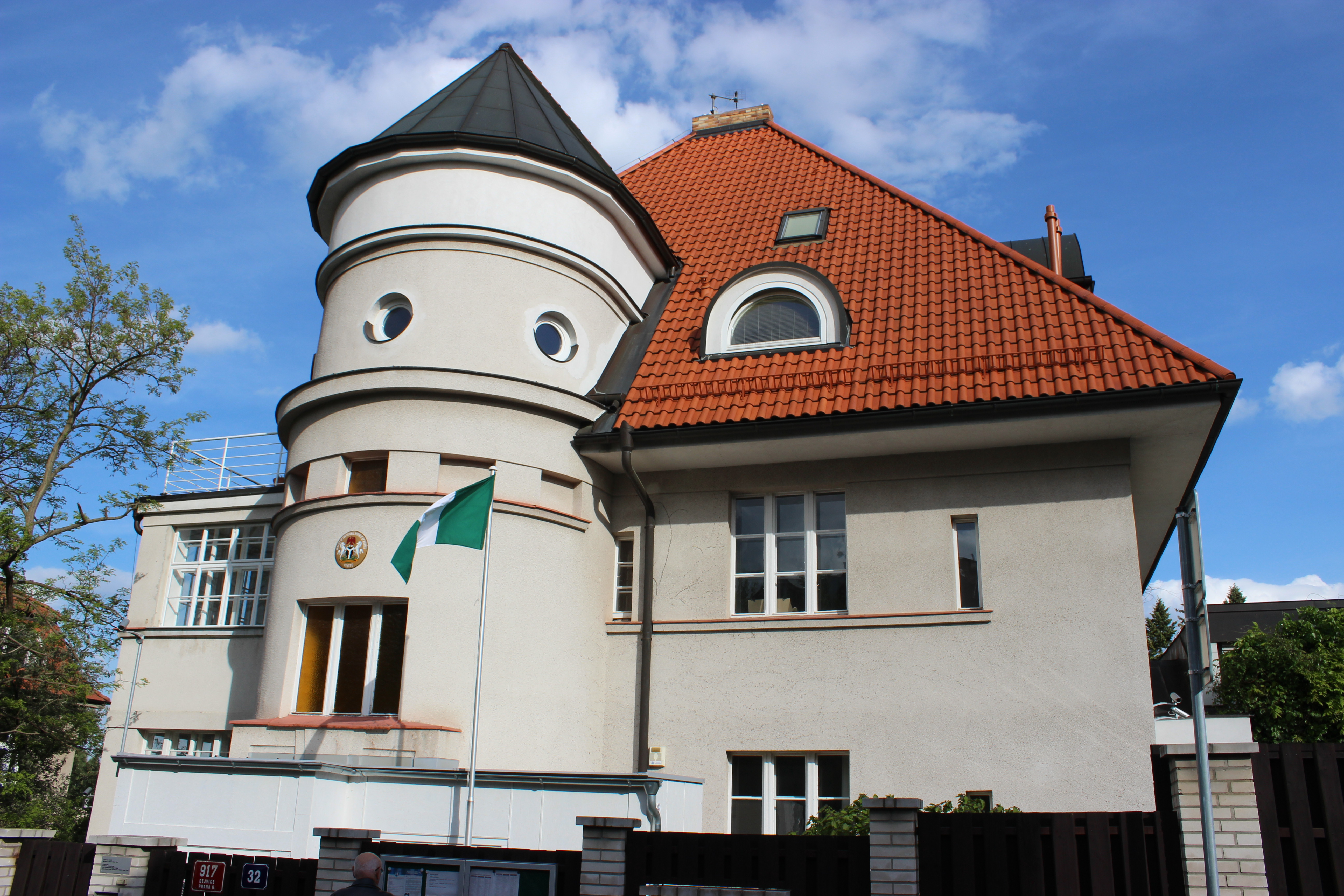 Nigerian Embassy in Prague, Czechia, Na Čihadle 917/32